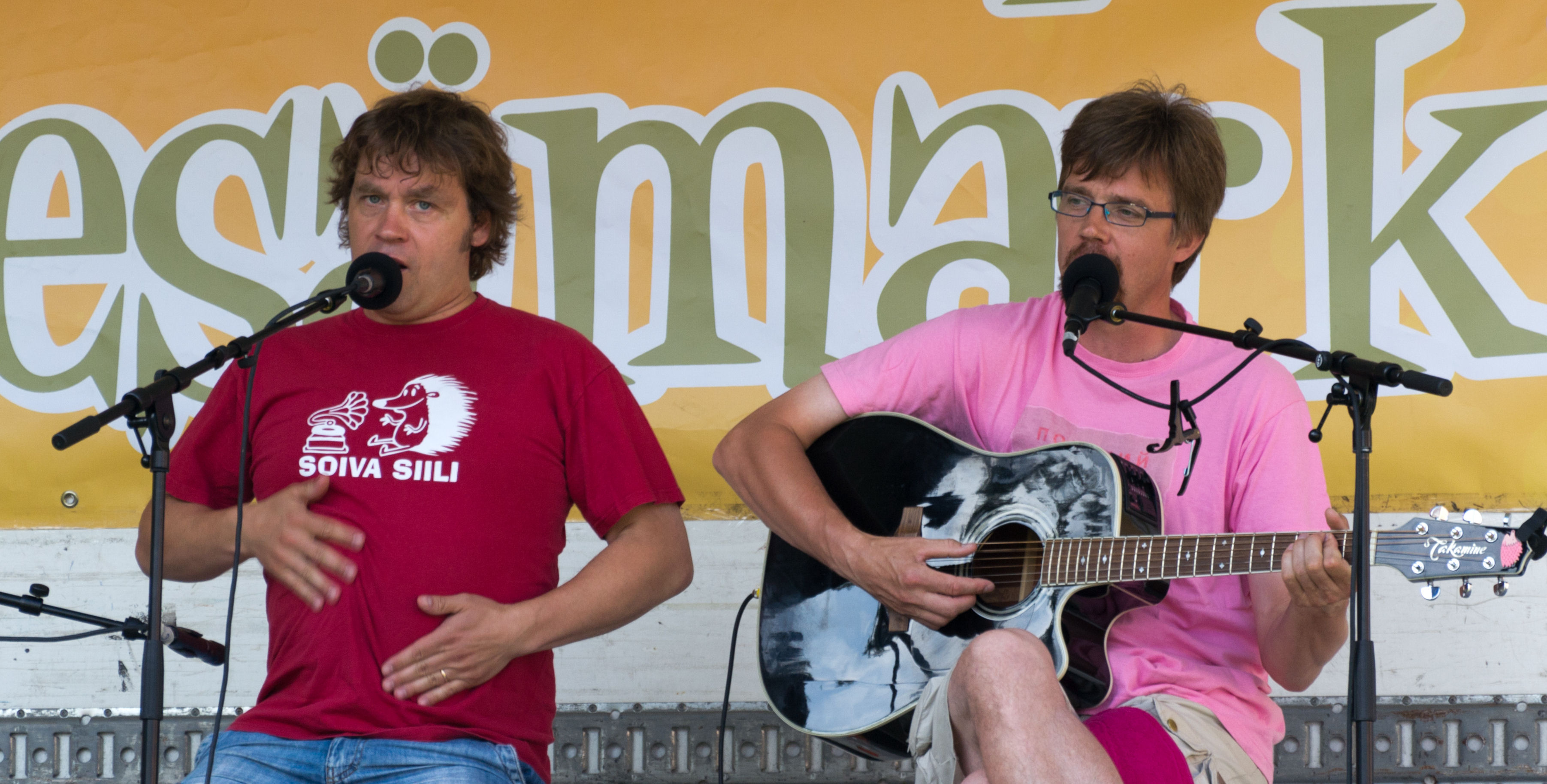 Soiva Siili musical group in Kittilä, Finland.